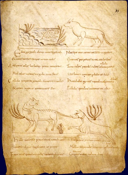 The BnF website gives this information: Latin fables The dog and the fox Avianus, Fables . Latin manuscript of the Xth century BnF, Manuscripts, Latin 1132 New Acquisitions fol. 39 However, the fables illustrated appear to be The Frog Physician at the top of the page, and The Mischievous Dog below